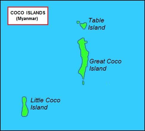 The Cocos Archipelago in Myanmar